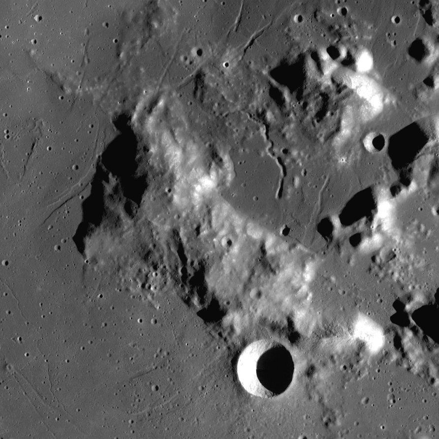 Mons Argaeus on the Moon. Mosaic of photos by Lunar Reconnaissance Orbiter, made with Wide Angle Camera. Size of the image is 80×80 km, north is approximately up.